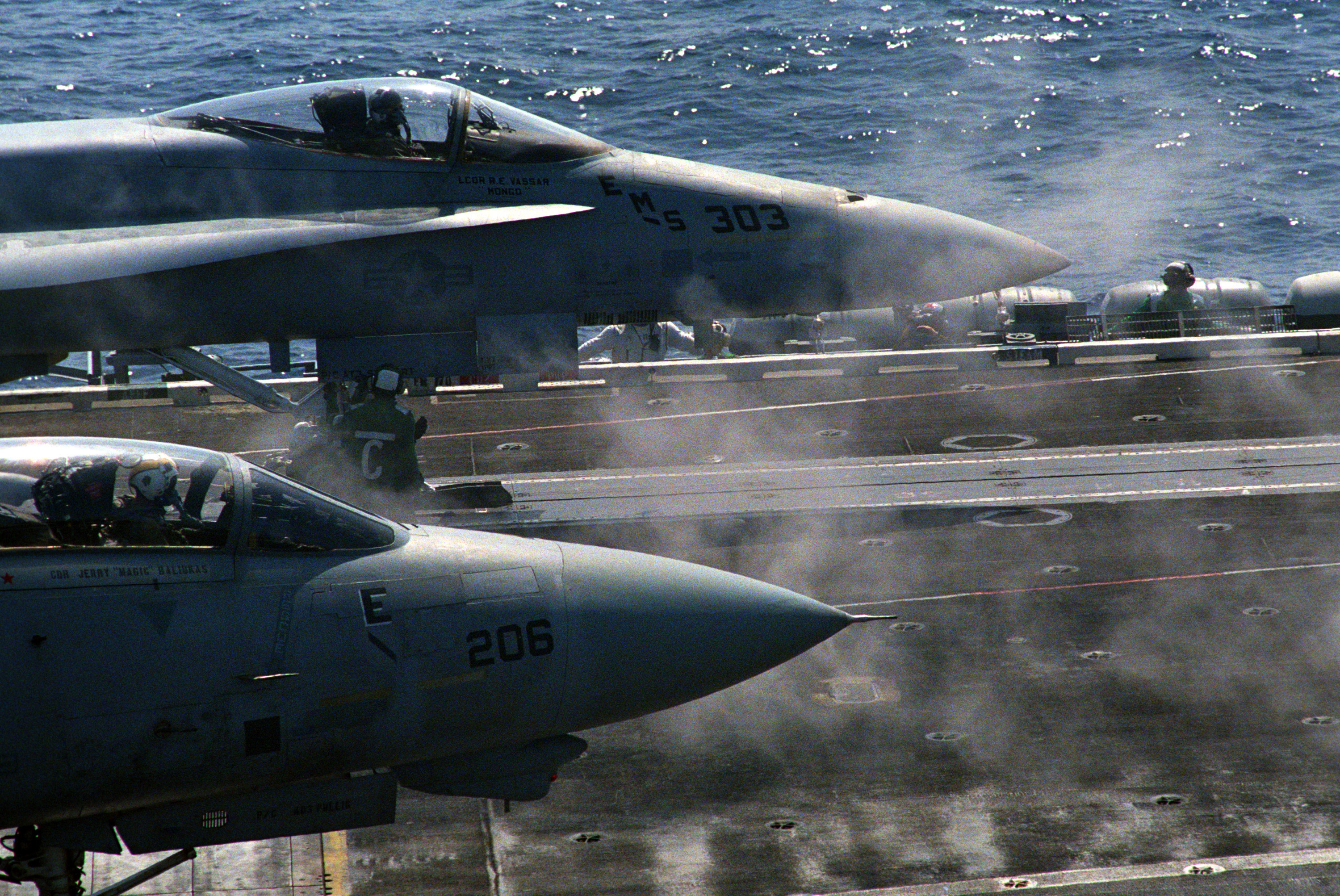 On the deck of the US Navy (USN) Nimitz Class Aircraft Carrier USS NIMITZ (CVN 68), a USN F-14A TOMCAT, stands by while a USN F/A-18 HORNET has its nose gear checked in the box prior to launching. The box is the area where the catapult grip and the aircraft nose gear come together in preparation for launch.